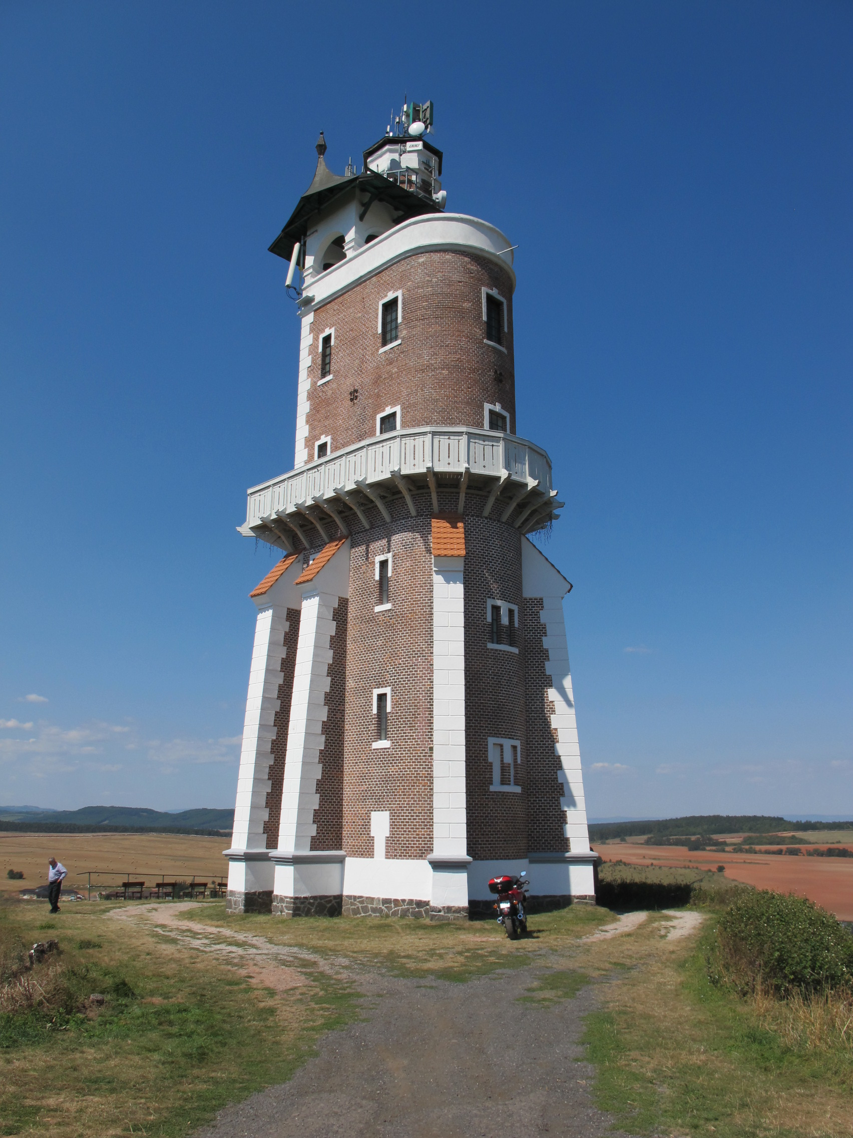 Schiller´s Look-out in Kryry (Czech Republic)